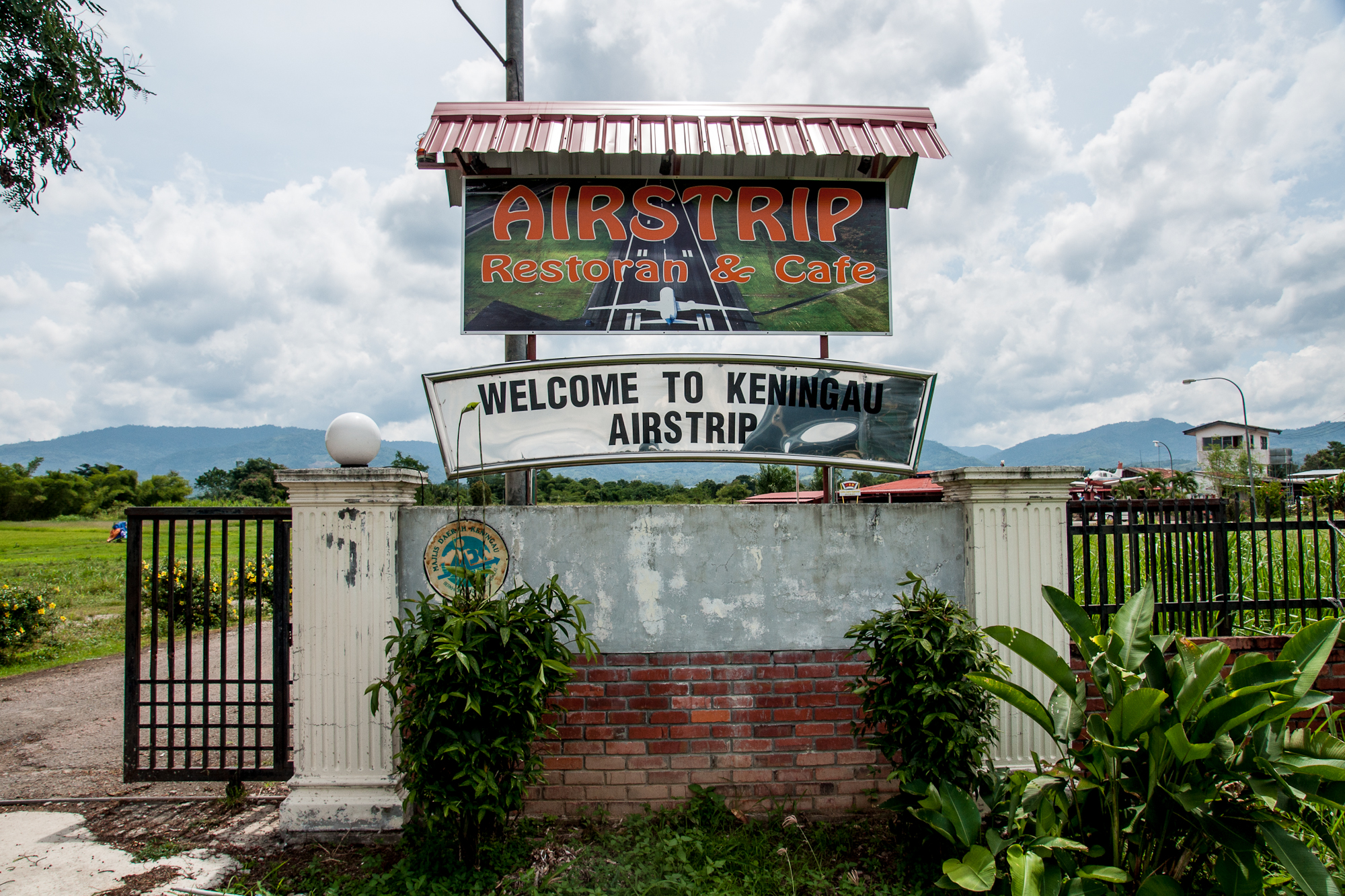 Airport Keningau, Sabah: Gate to the old Airport, today a private airstrip